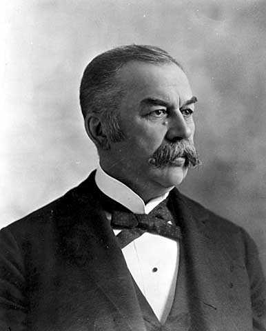 Portrait of Jacob V. Brower from 1897.